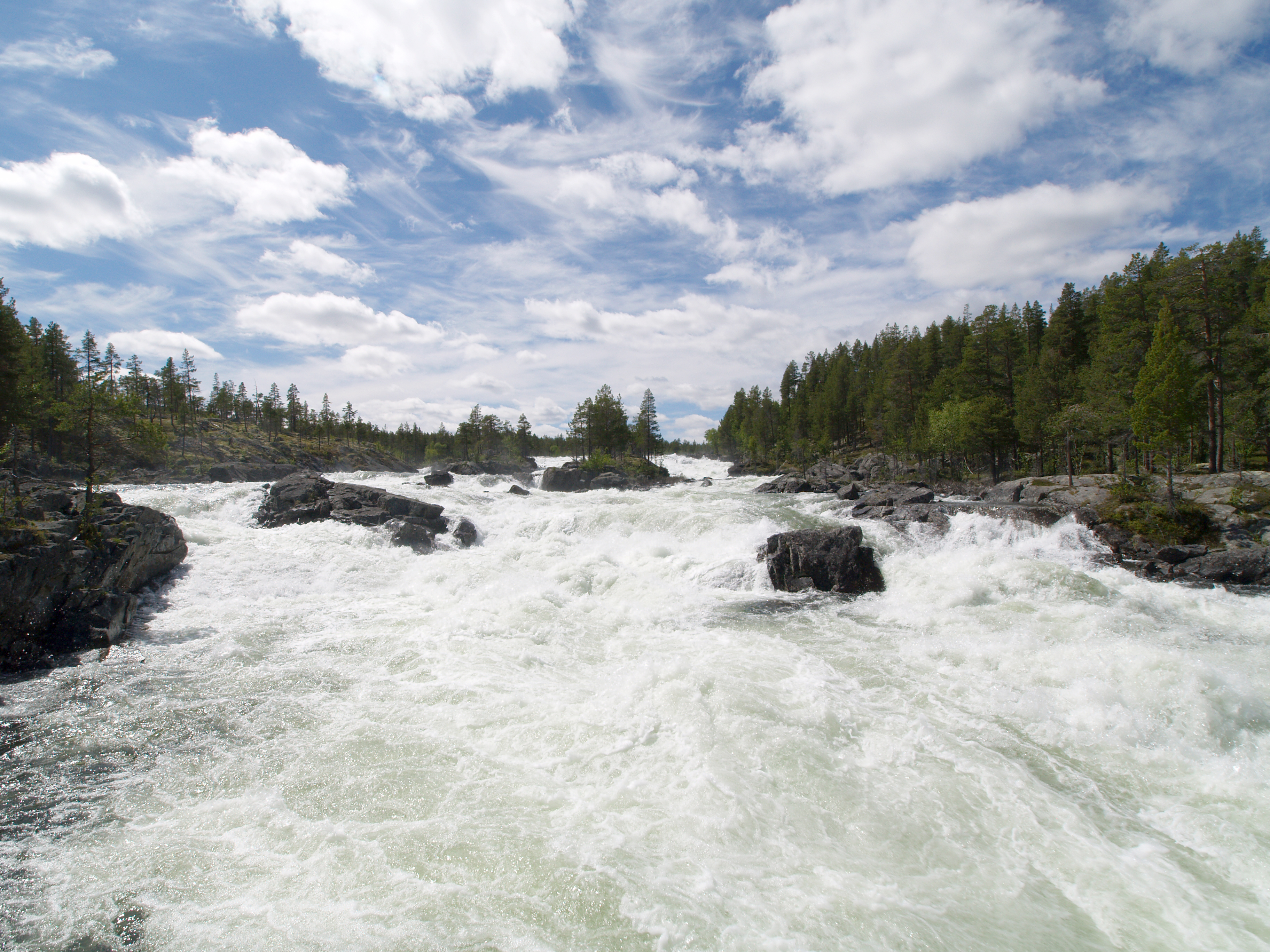 Godfarfossen i Numedalslågen i Buskerud fylke